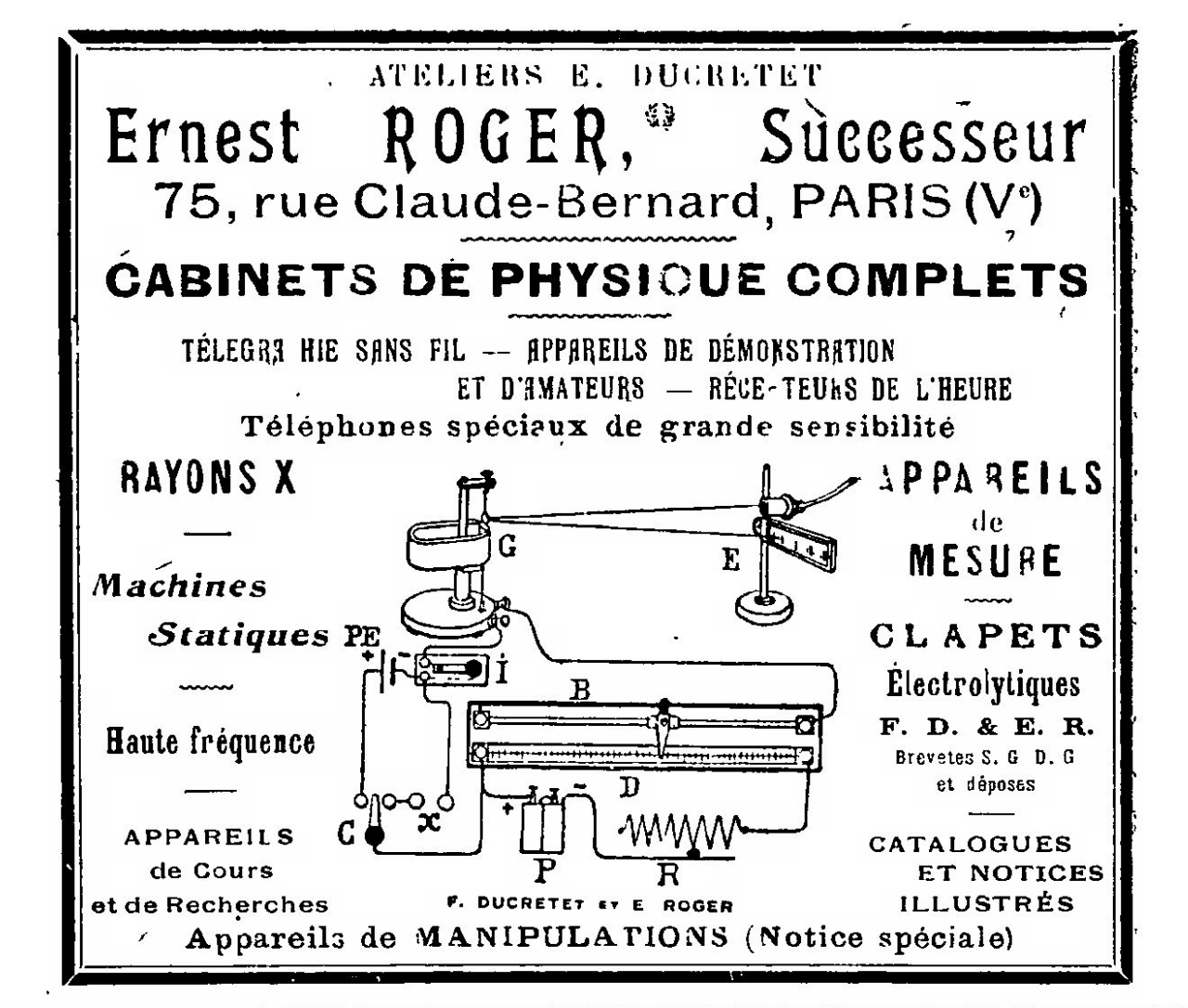 Ateliers E. Ducretet Ernest Roger, Successeur 75 rue Claude-Bernard, Paris (Ve) - Cabinets de physique complets, ..., advertising.